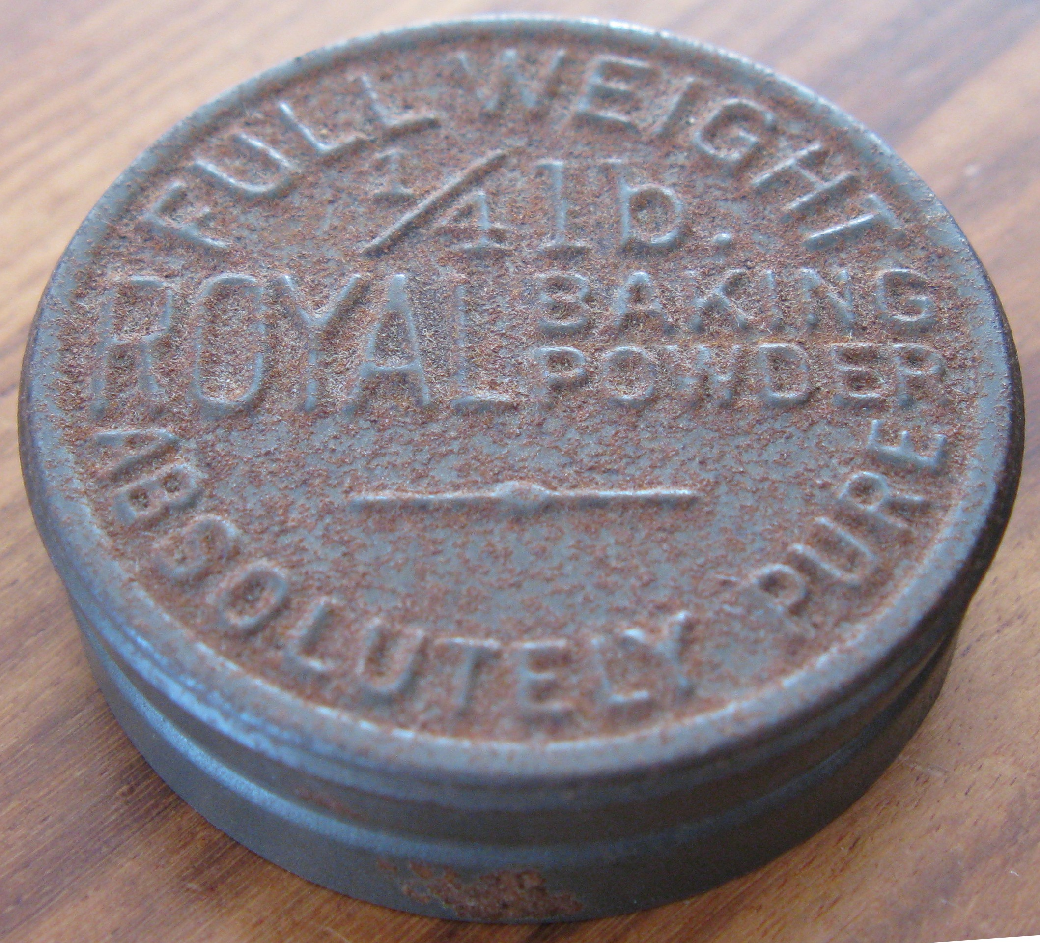 Top of a Royal Baking Powder tin used for biological specimens late 19th or early 20th C